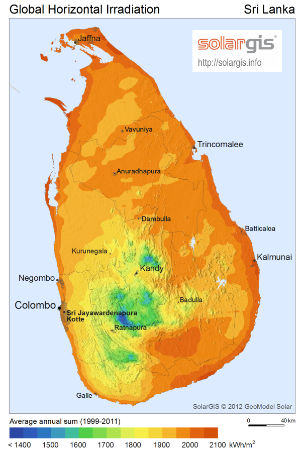 Solar Radiation Map: Global Horizontal Irradiation Map of Sri Lanka, SolarGIS. English version.